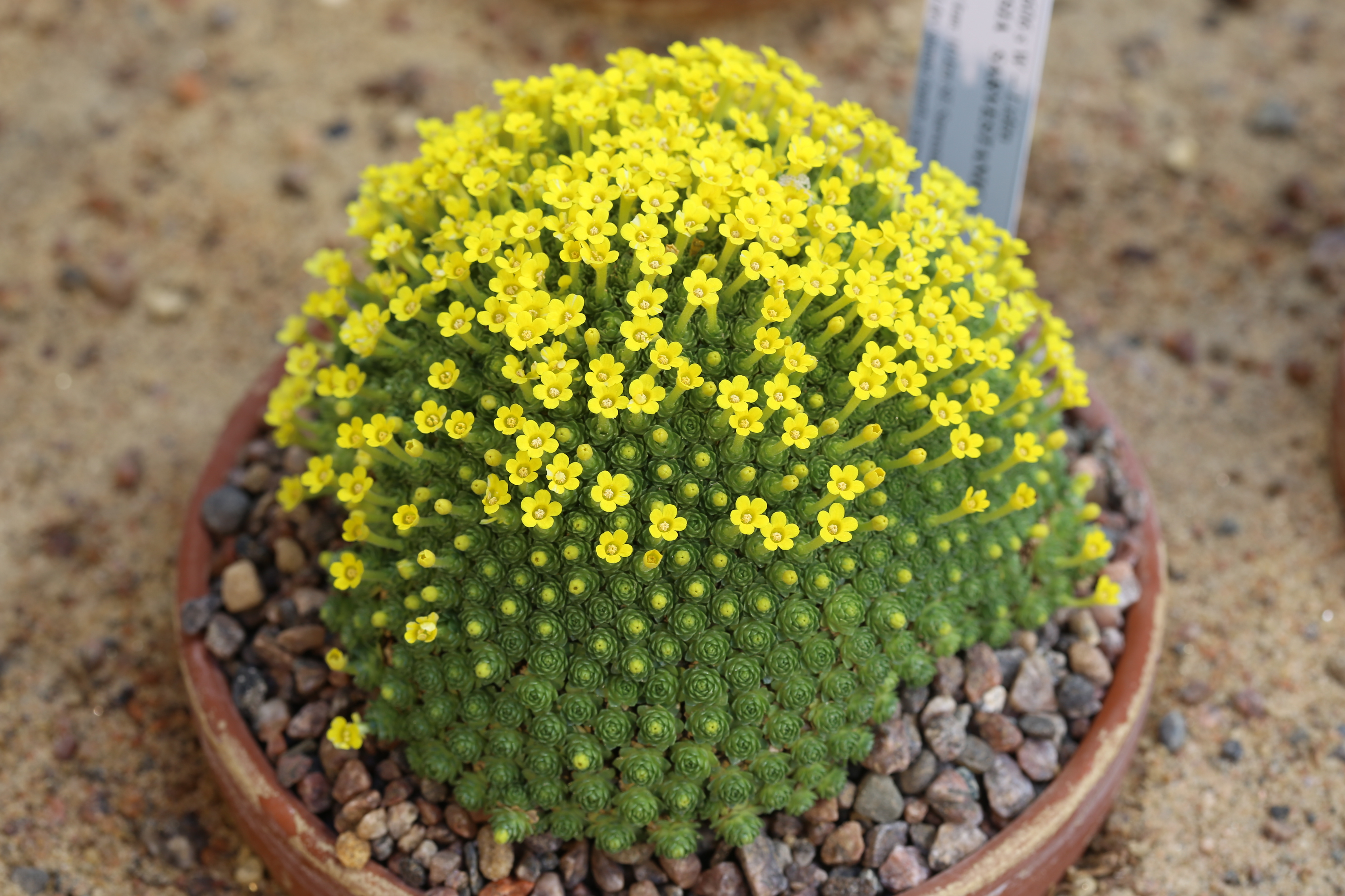 Dionysia sarvestanica at Gothenburg Botanical Garden 2015. Plant id: 1998-2606 s W -- Lidén; SLIZE 241-4